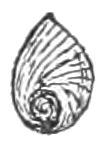 Drawing of operculum of Pyrgulopsis nevadensis.